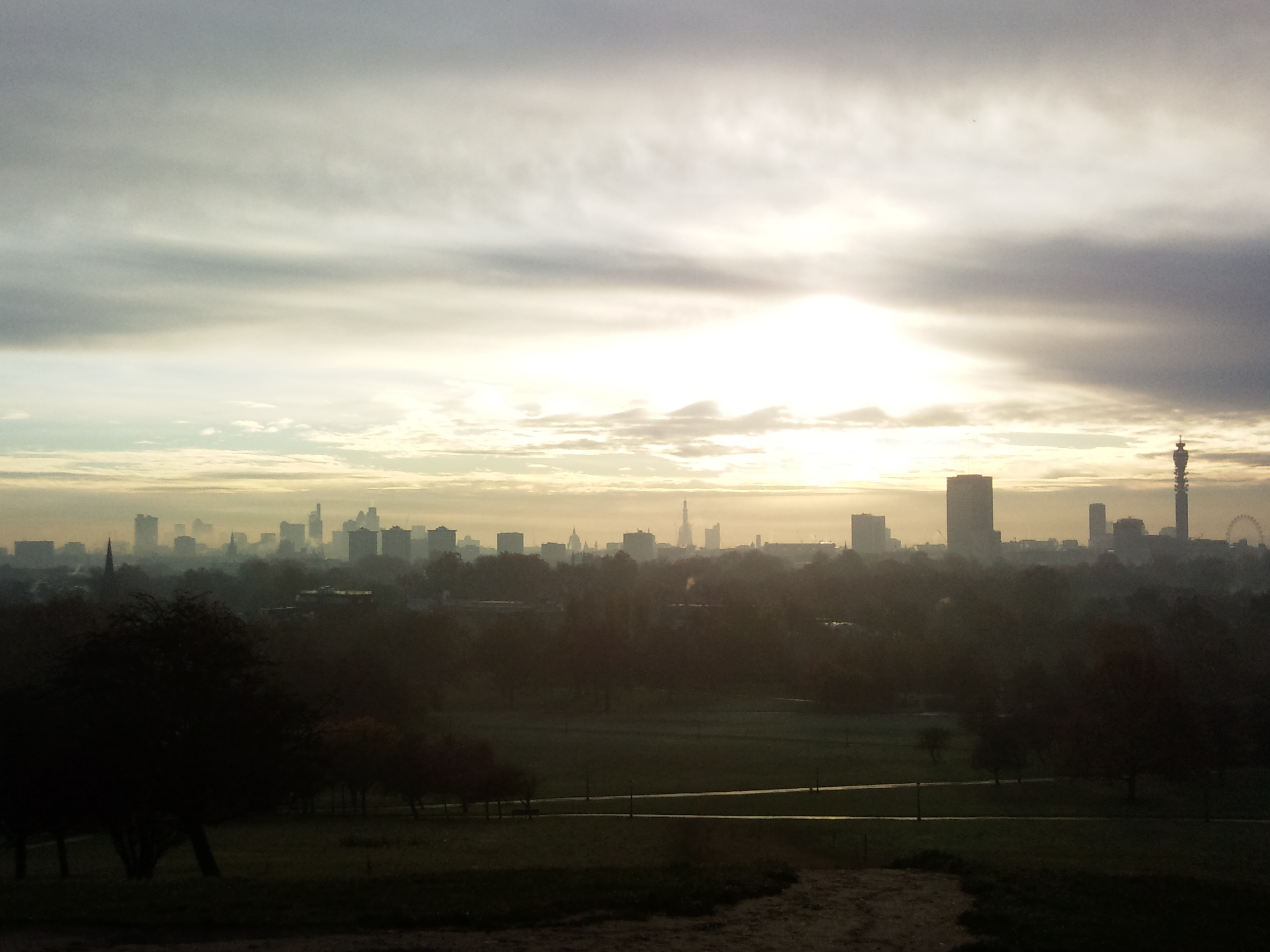 Panoramic morning view of London from Primrose Hill